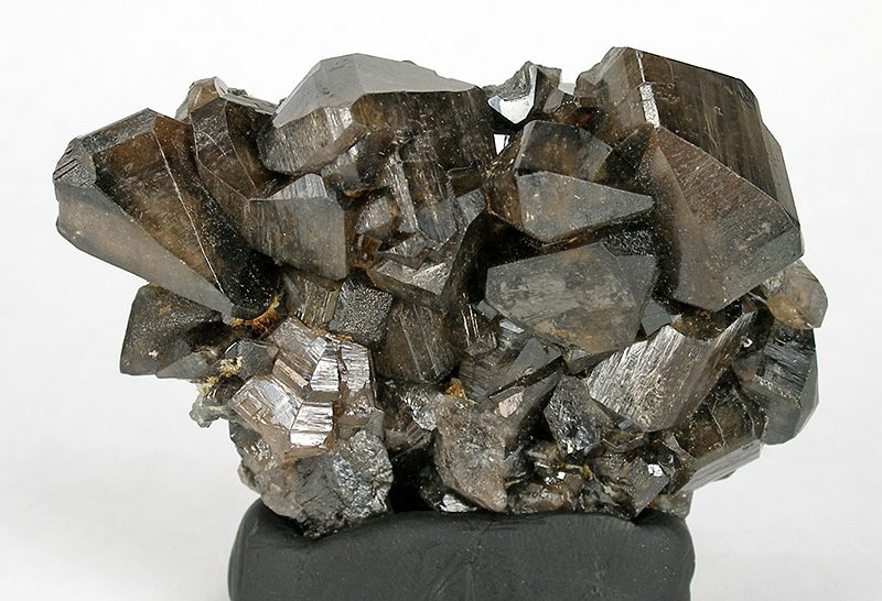 Cassiterite Locality: Viloco Mine (Araca mine), Loayza Province, La Paz Department, Bolivia (Locality at ) Size: small cabinet, 6.6 x 5.4 x 2.2 cm Cassiterite (gemmy!) The worlds gemmiest cassiterite crystals have, in the past, come from Viloco. Some Chinese crystals, some very few, now match them - but these have historicaly set the standard. However, specimens of this quality are now very scarce in the mineral market. This particular specimen is a cluster of lustrous, gemmy, brownish-tan cassiterite crystals to 2.2 cm in length. The crystal on the top left-hand side is not only gemmy but it is also classically twinned. A superb old specimen with no damage to the display face except at the bottom periphery and one contacted small crystal atop. Ex. Dr. Edward David Collection.